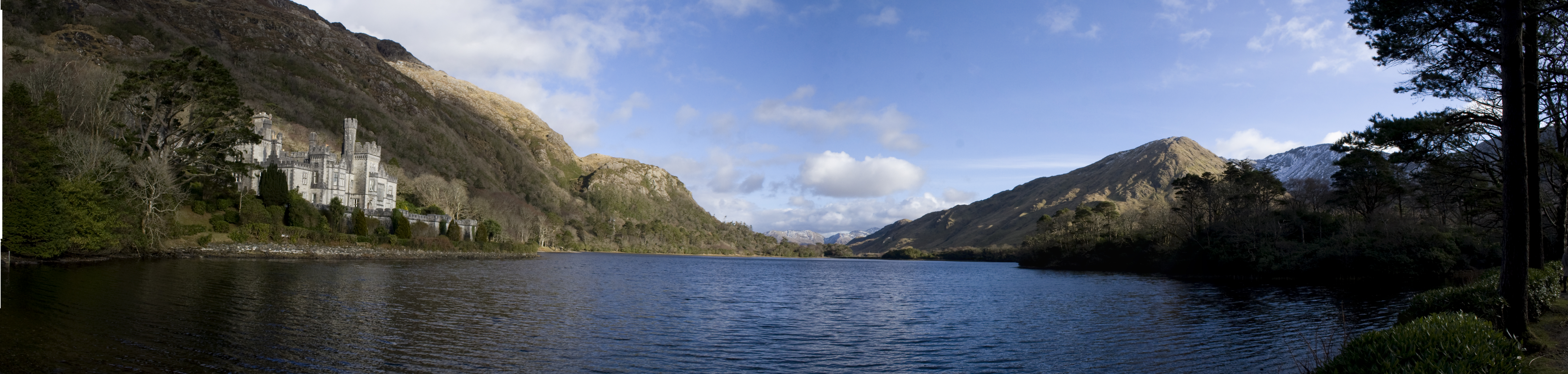 Panorama of Kylemore Abbey and Lake